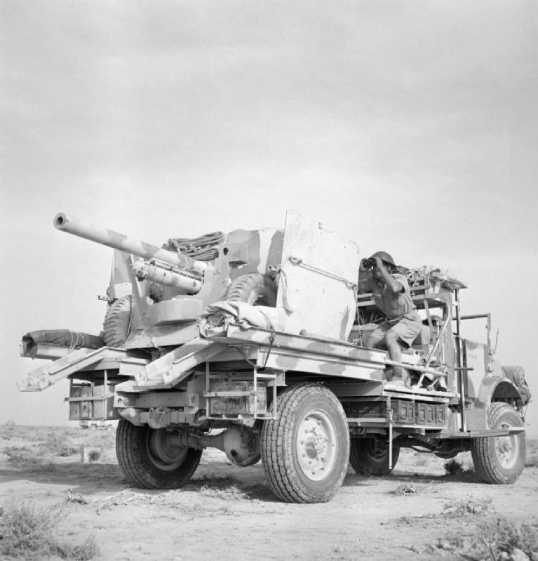 The British Army in North Africa 1942 A truck mounted 6-pdr anti-tank gun in the Western Desert, 31 May 1942.